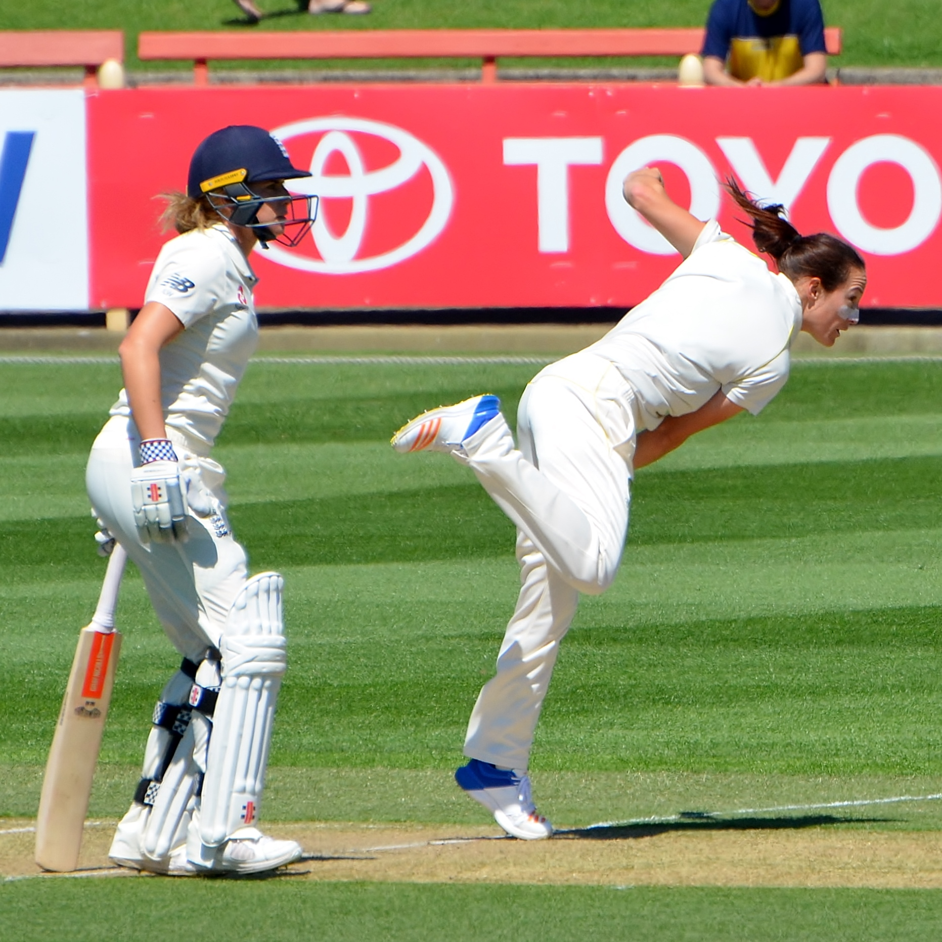 Megan Schutt bowling on the first day of the 2017–18 Women's Ashes Test at North Sydney Oval. The batter is Lauren Winfield.